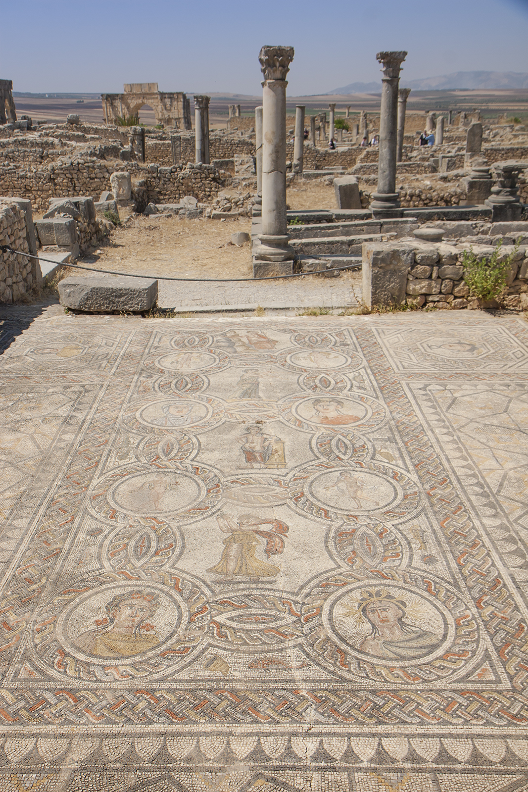 Many fine houses and public buildings in Volubilis, just as throughout the Roman Empire, were beautifully decorated with mosaics and frescoes. The frescoes are gone, but many mosaics remain. This is the mosaic of the Four Seasons